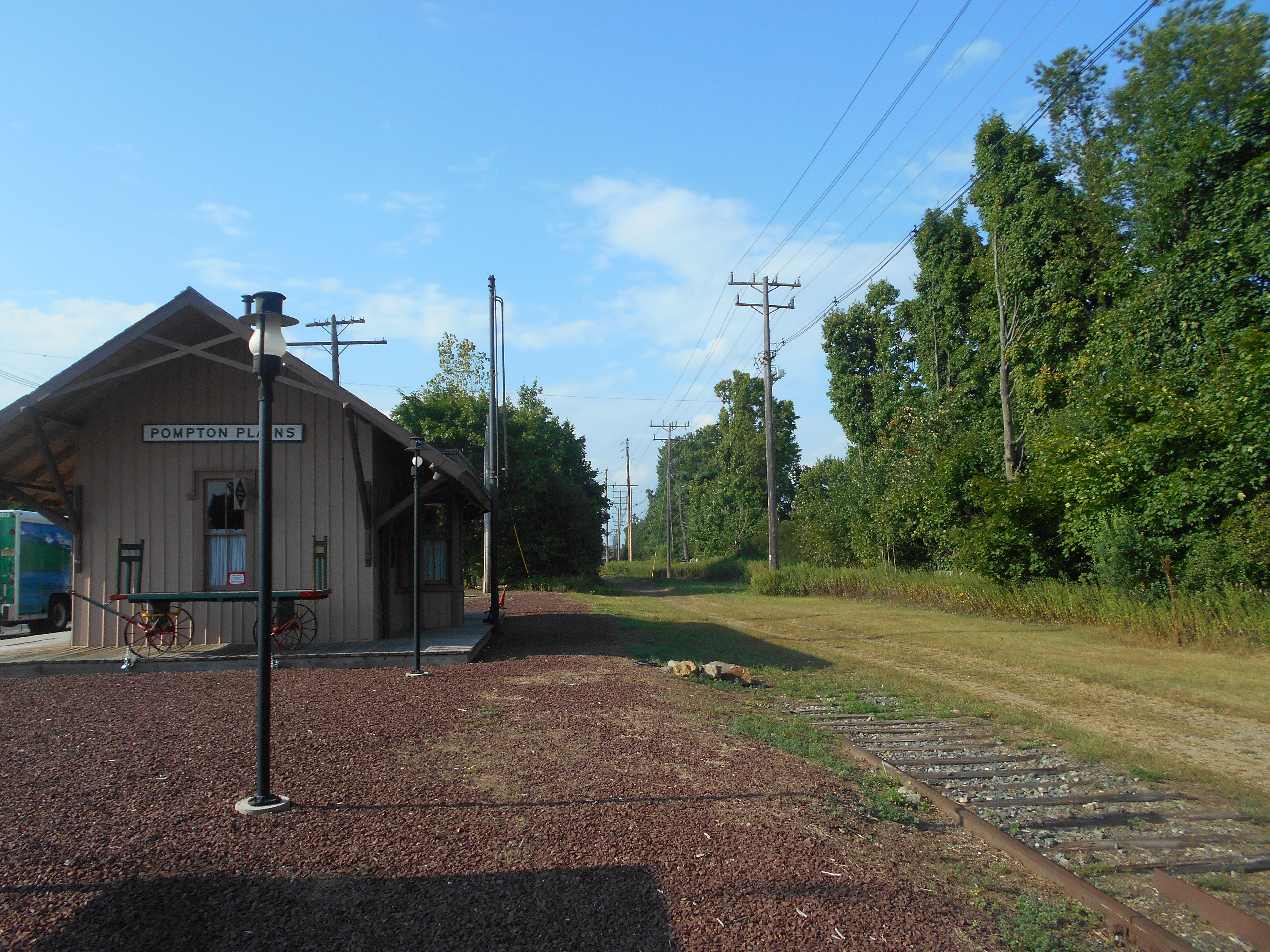 The former Pompton Plains station on the Erie Railroad's New York and Greenwood Lake Railway in September 2014.